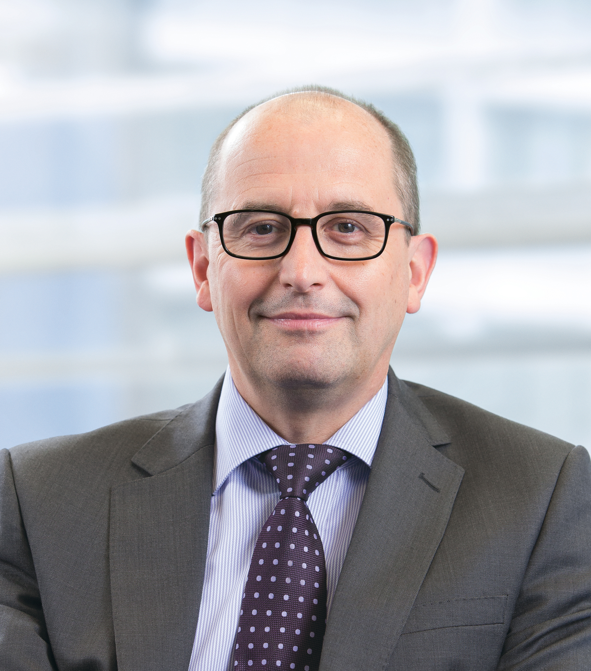 Photo of Richard Clegg